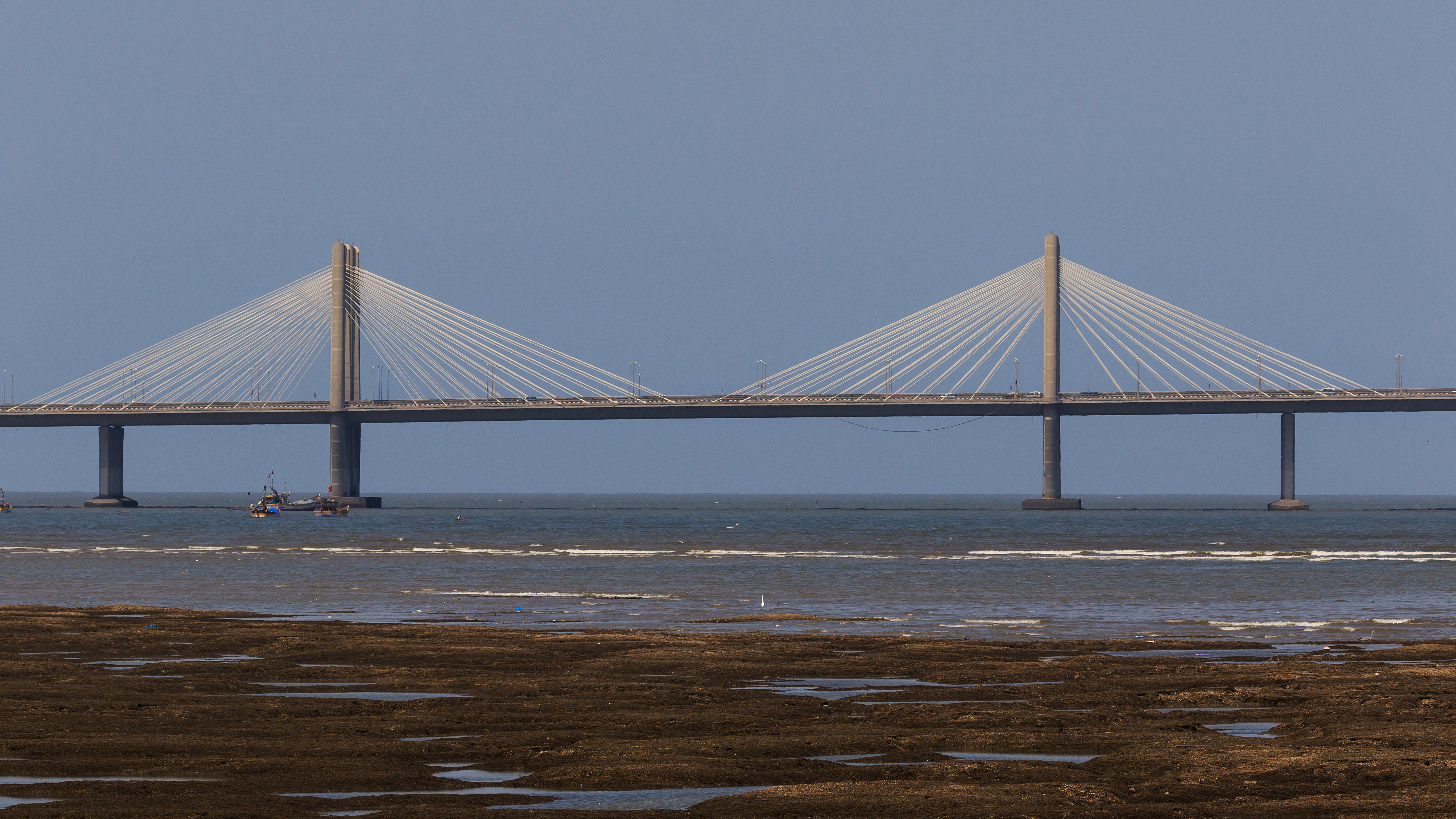 View from Dadar Beach to Bandra-Worli Sea Link in Mumbai, India